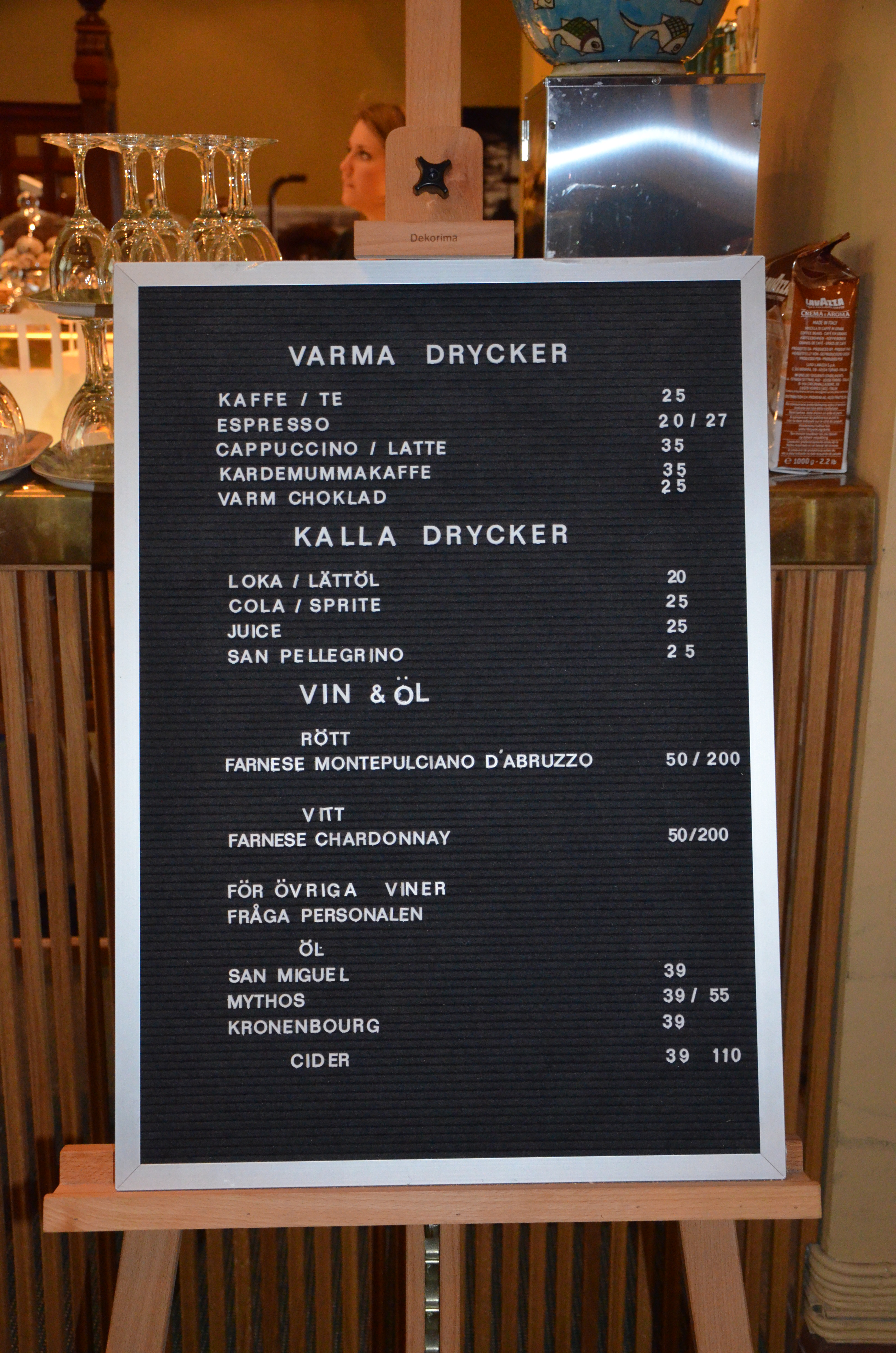 Aviso letters, a graphical board system. Medelhavsmuseets kafé, Stockholm.